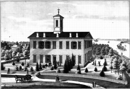 A Mid-1870s sketch of La Grange College in La Grange, Missouri. The college was a forerunner of the current Hannibal-La Grange University.